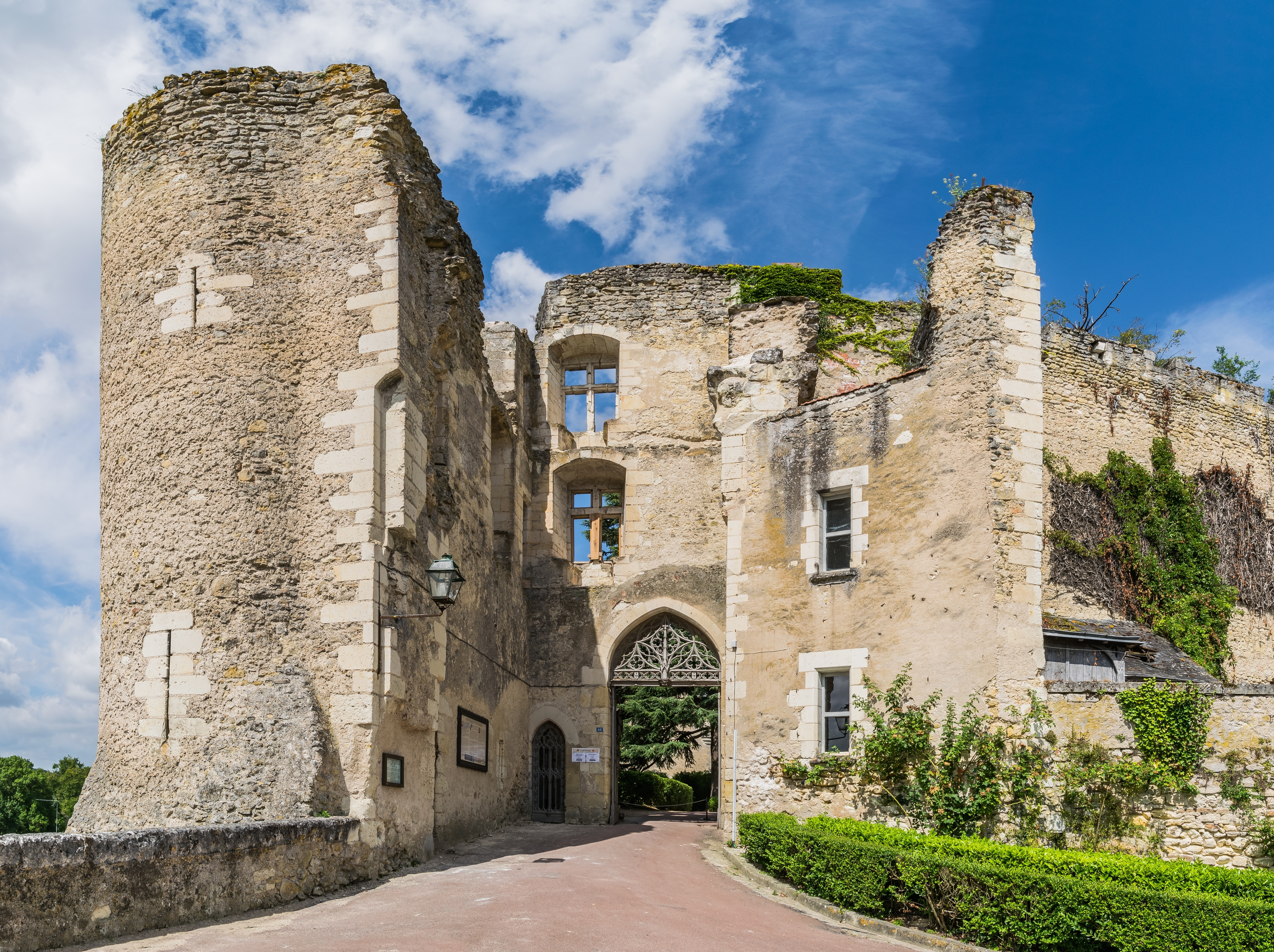 Gate of the Castle of Montrésor, Indre-et-Loire, France NOTE: This image is a panorama consisting of 4 frames that were merged or stitched in Adobe Lightroom. As a result, this image necessarily underwent some form of digital manipulation. These manipulations may include blending, blurring, cloning, and colour and perspective adjustments. As a result of these adjustments, the image content may be slightly different from reality at the points where multiple images were combined. This manipulation is often required due to lens, perspective, and parallax distortions.